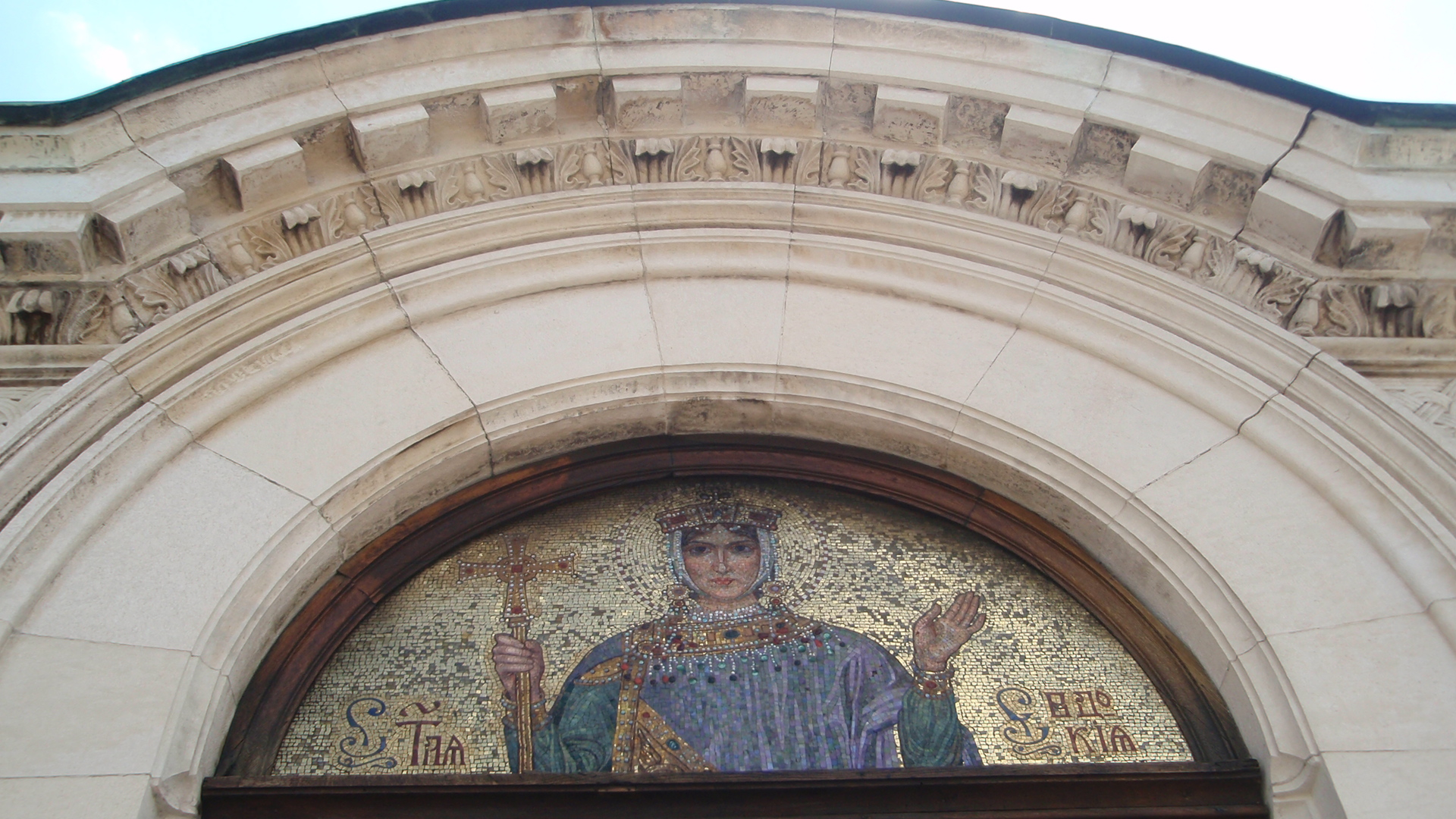 Temple-мonument "Alexandеr Nevski" - mosaic icon of saint Eudokia in the lunette above southern western gates of the church